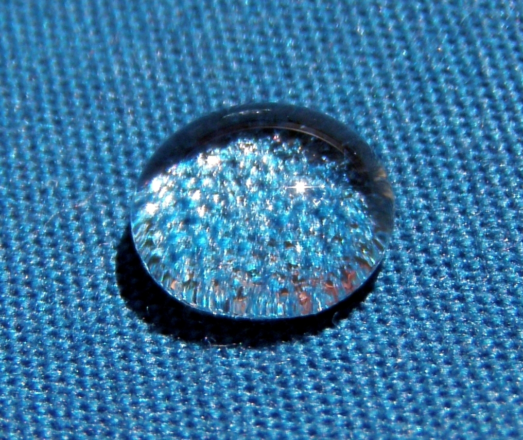 Bokachoda